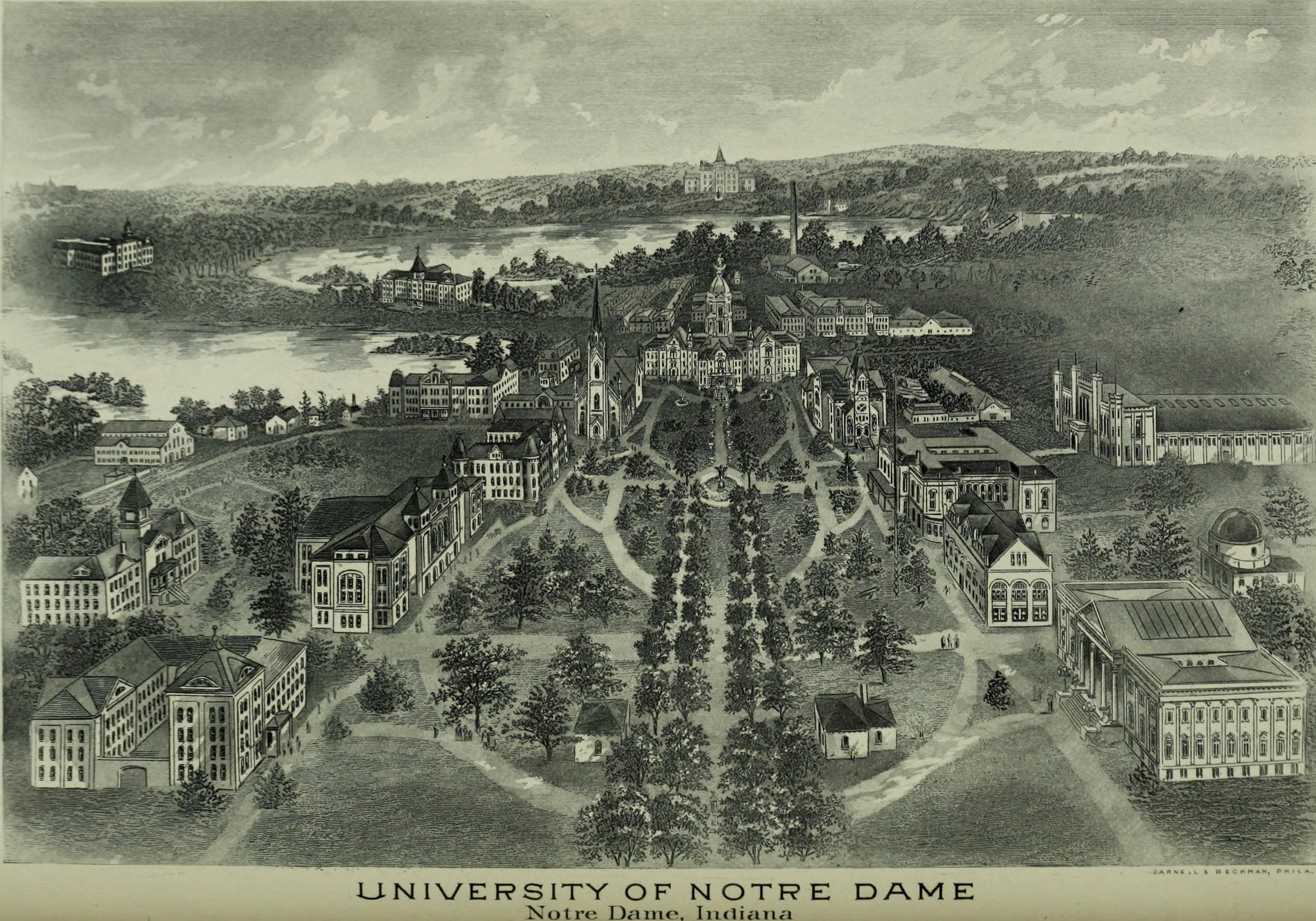 Title: Catalogue of the University of Notre Dame Year: 1898 (1890s) Authors: University of Notre Dame Subjects: University of Notre Dame University of Notre Dame University of Notre Dame Universities and colleges Publisher: Notre Dame, Ind. : University Press Text Appearing Before Image: iiTfi-- A? Text Appearing After Image: Scries I. Number I. BULLETIN OF THE University of Notre Dame NOTRE DAME, INDIANA